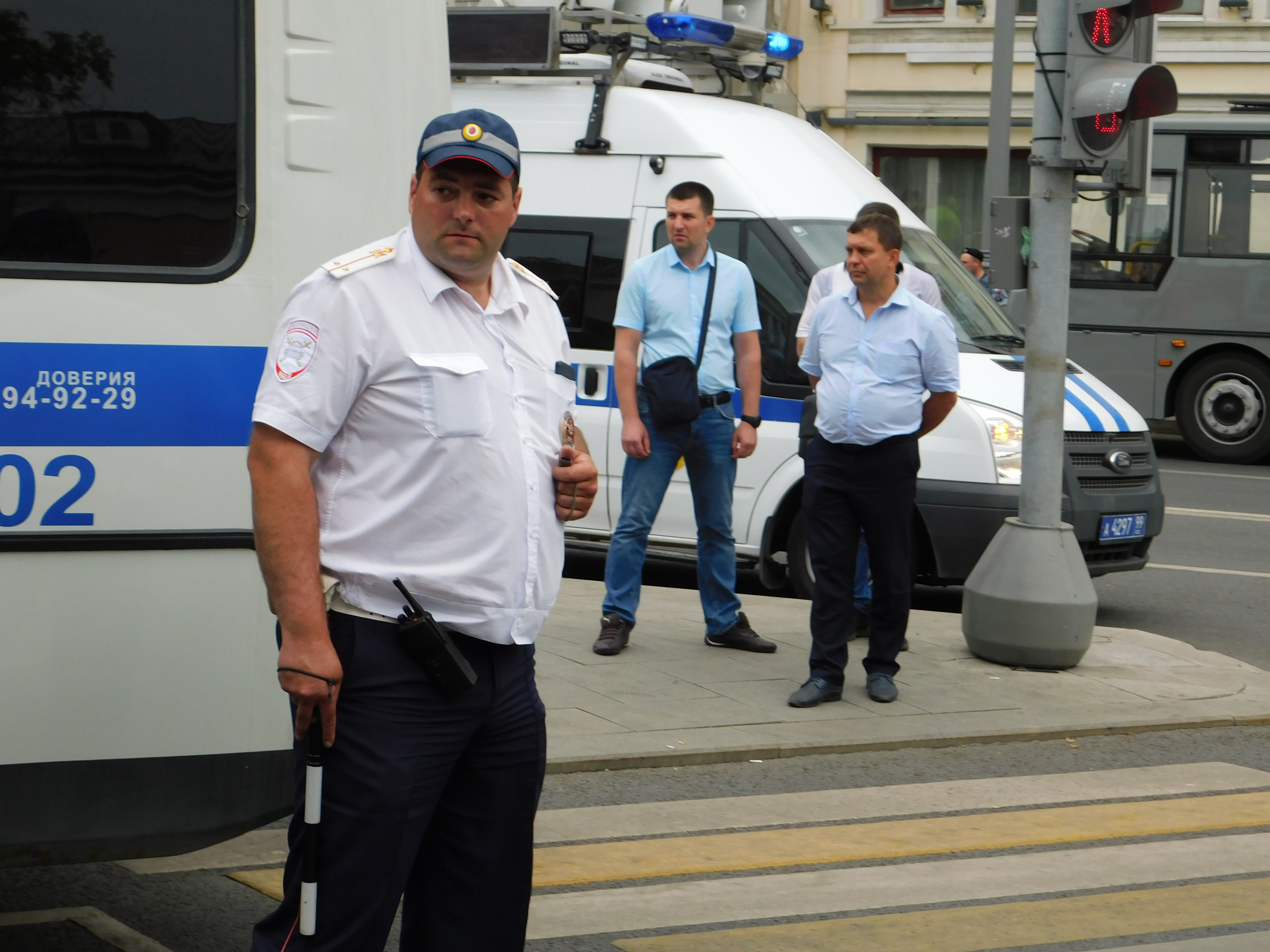 Golunov march